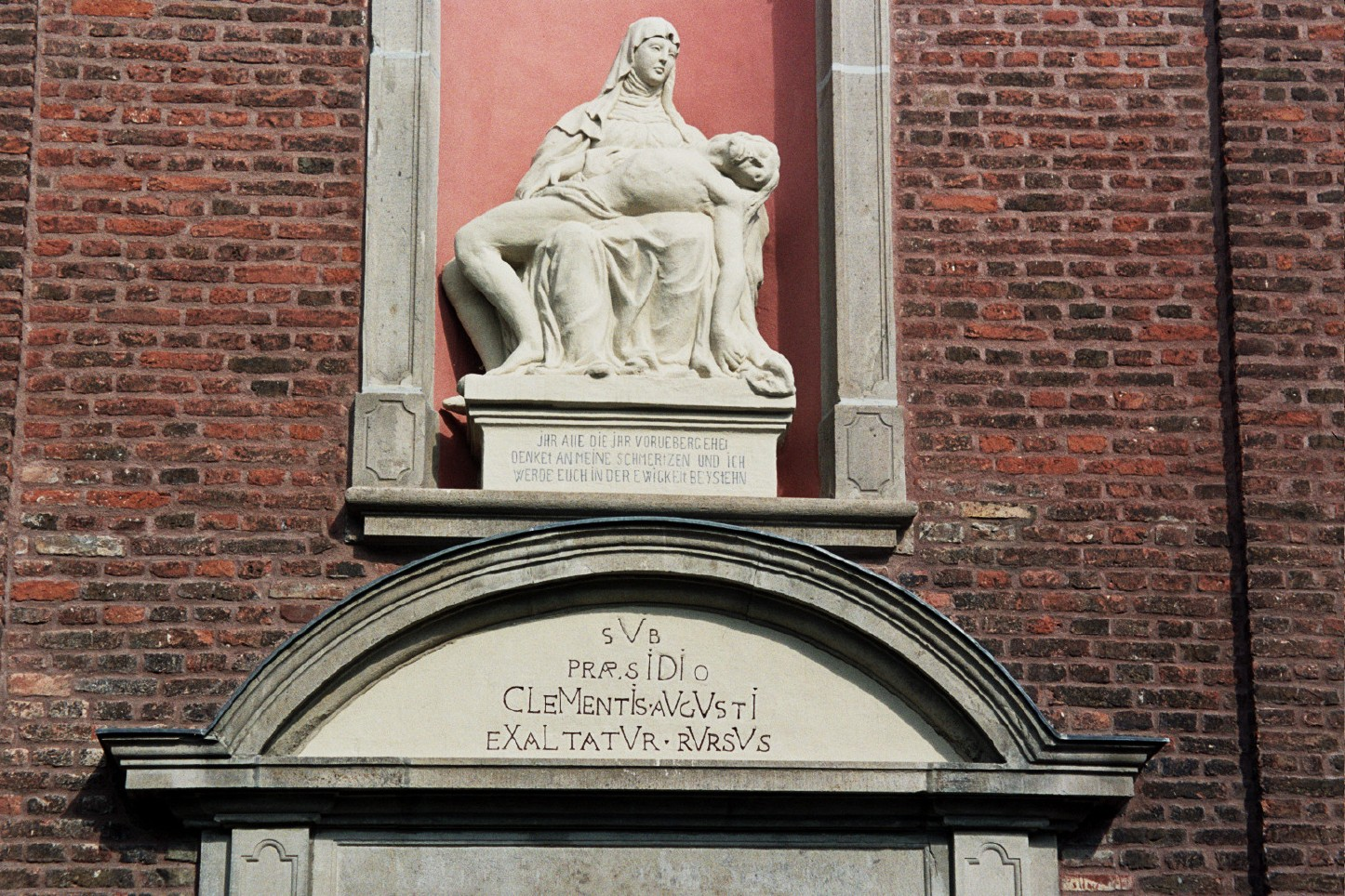 Chronogramm in Hersel, Germany near Bonn